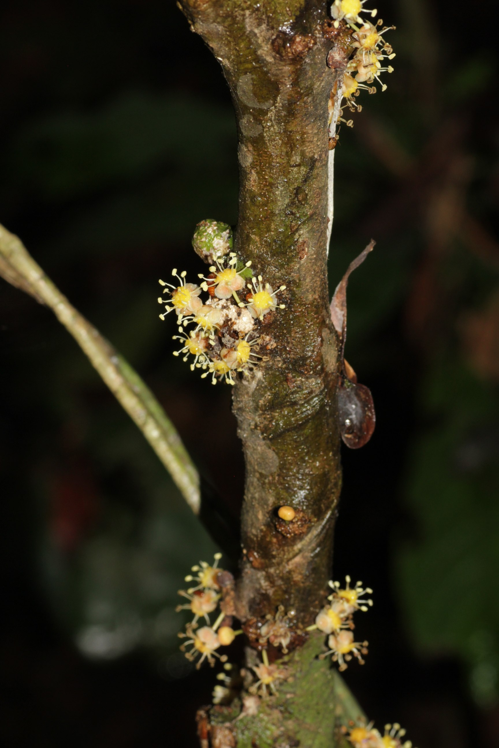 Taï National Park, Ivory Coast